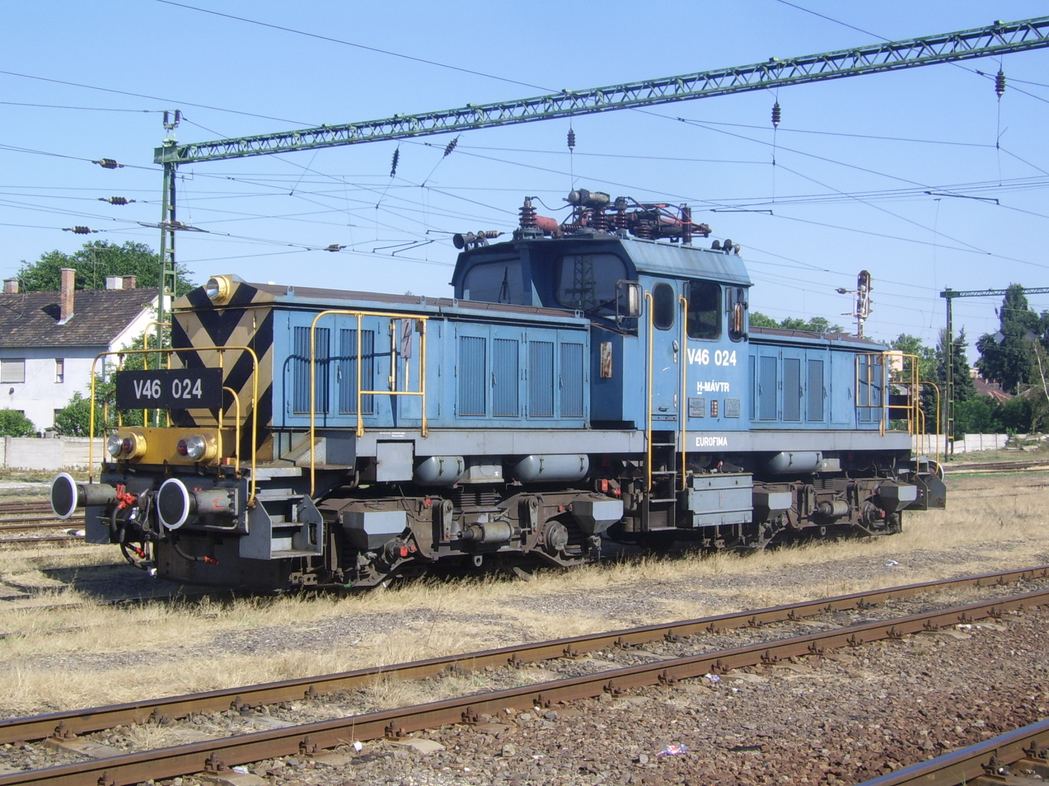 MÁV V46 123 in Kecskemét, Hungary